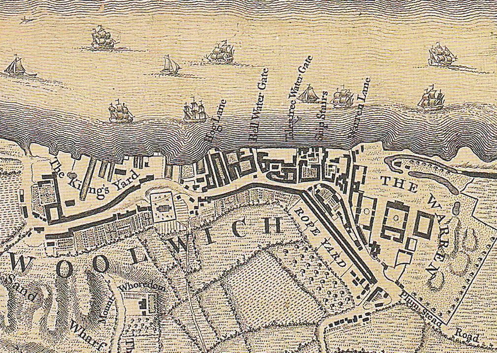 Woolwich in the 1740s. Detail of a map of London in the 18th c. Engraved by Richard Parr, surveyed and published by John Rocque, 1746.